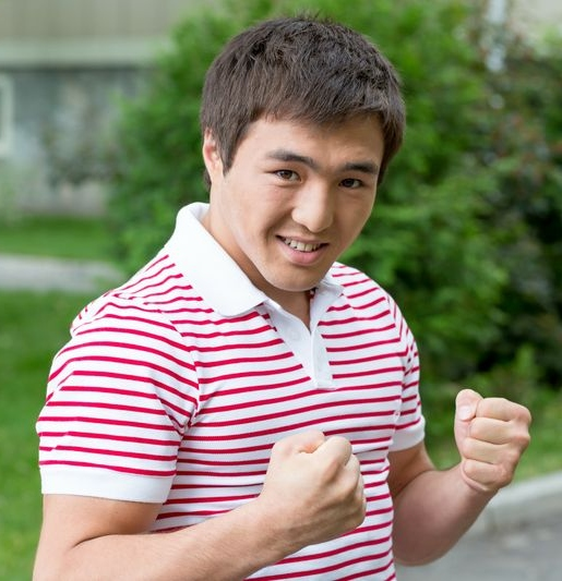 Famous Kazakh athlete - judoka Eldos Smetov, world youth champion in 2010, a bronze medalist at the 2013 Asian Championship.